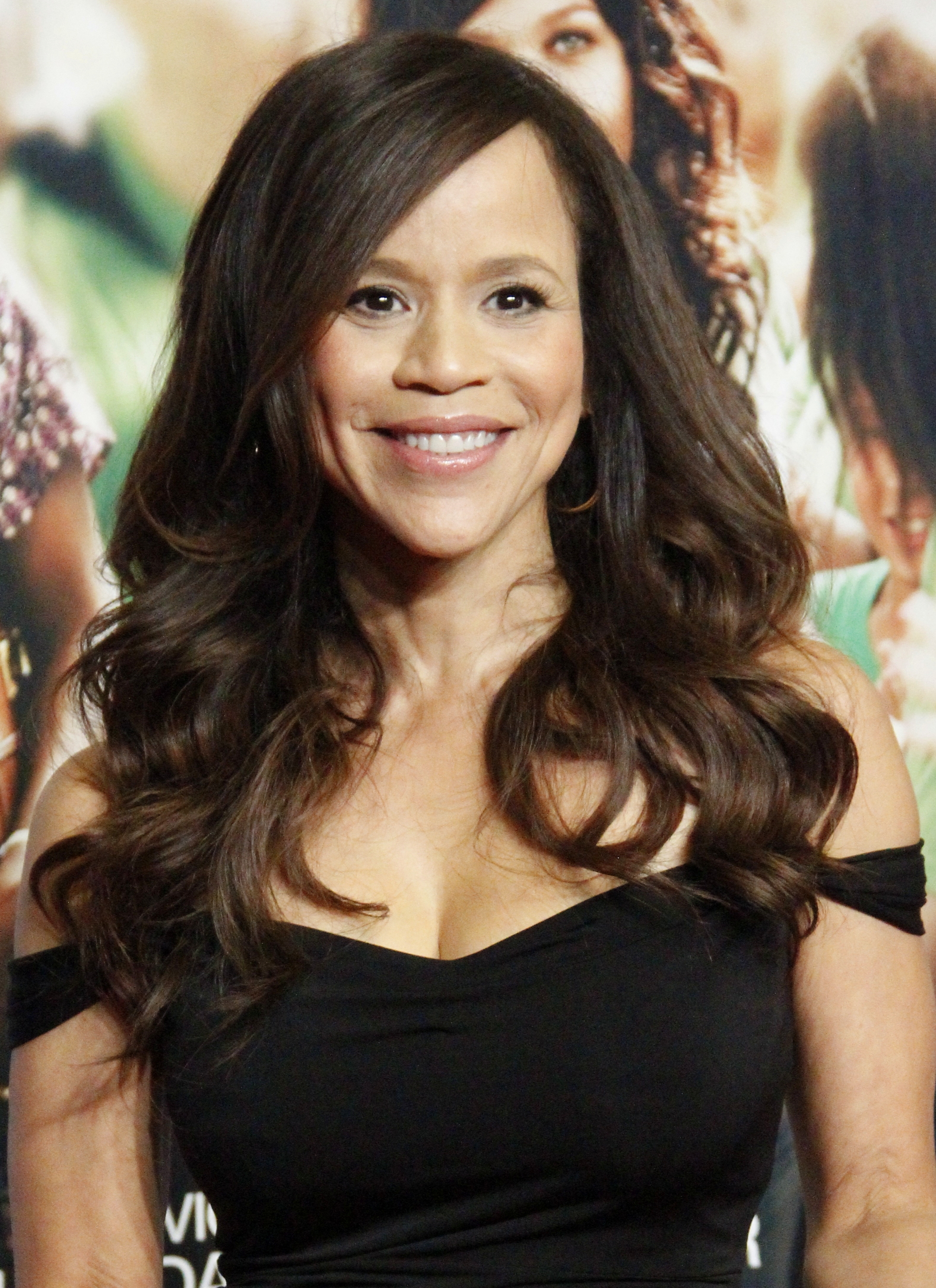 Rosie Perez at the Won't Back Down NYC Premiere, Ziegfeld Theater in 2012.